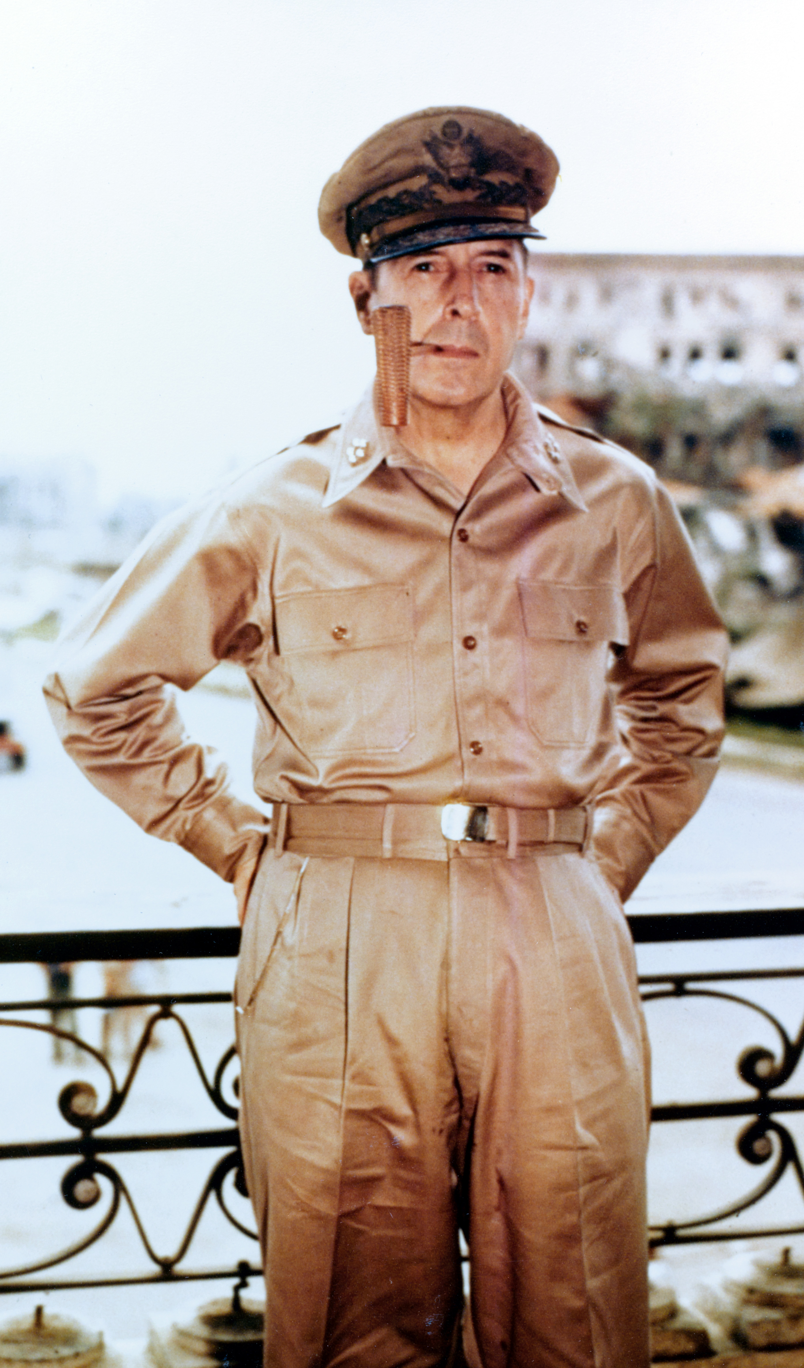 General of the Army Douglas MacArthur smoking his corncob pipe, probably at Manila, Philippine Islands, 2 August 1945.